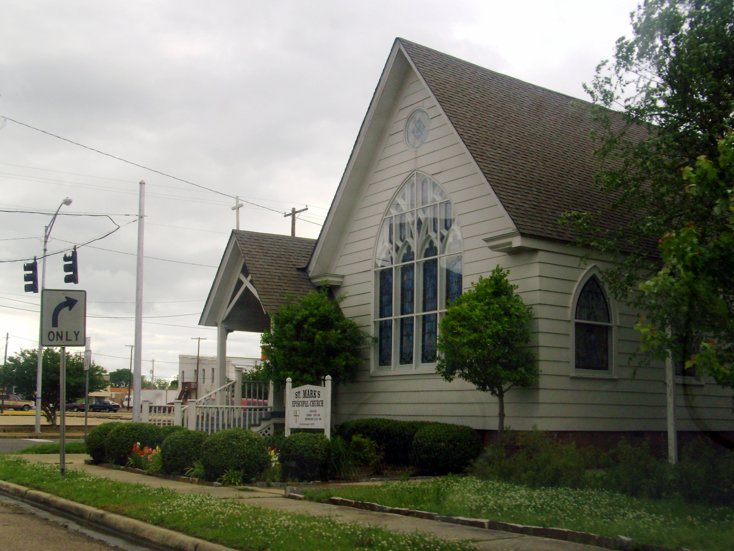 Historic church in Hope, AR